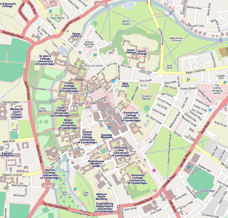 Map of Cambridge Geographic limits of the map: N: 52.21328° S:52.19711° W:0.10775° E: 0.13526°